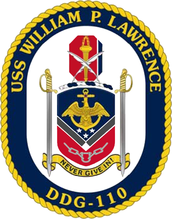 Emblem of USS William P. Lawrence (DDG-110)